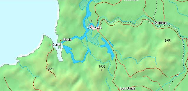 Corral, Region de los Ríos